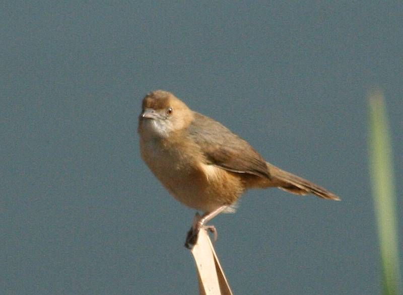 Red-faced Cisticola (Cisticola erythrops). A non-breeding adult. Location: Darville, Pietermaritzburg, South Africa.